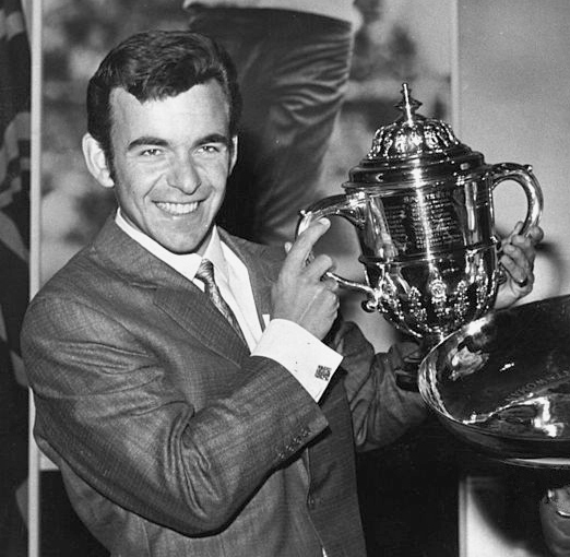 1969 Press Photo Tony Jacklin and Ann Jones British Sportsmen Of The Year